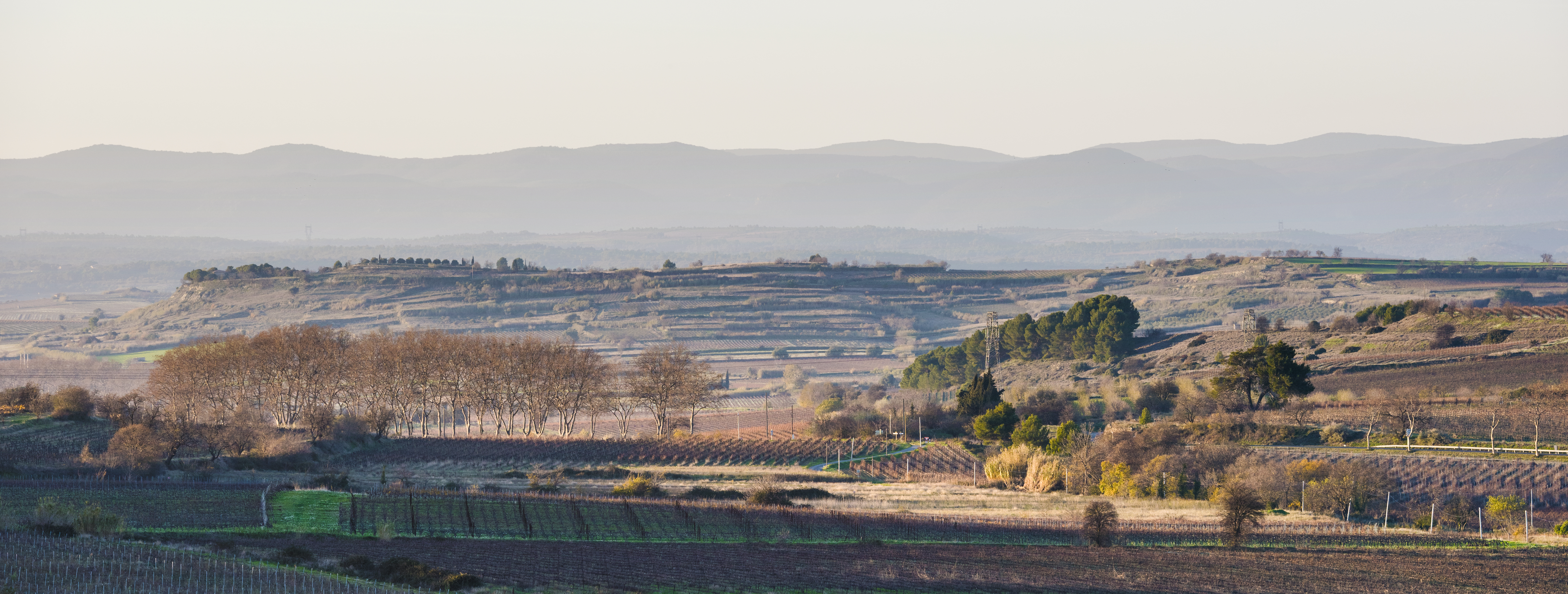 Landscape in the commune of Capestang taken from the commune of Montady, Hérault, France